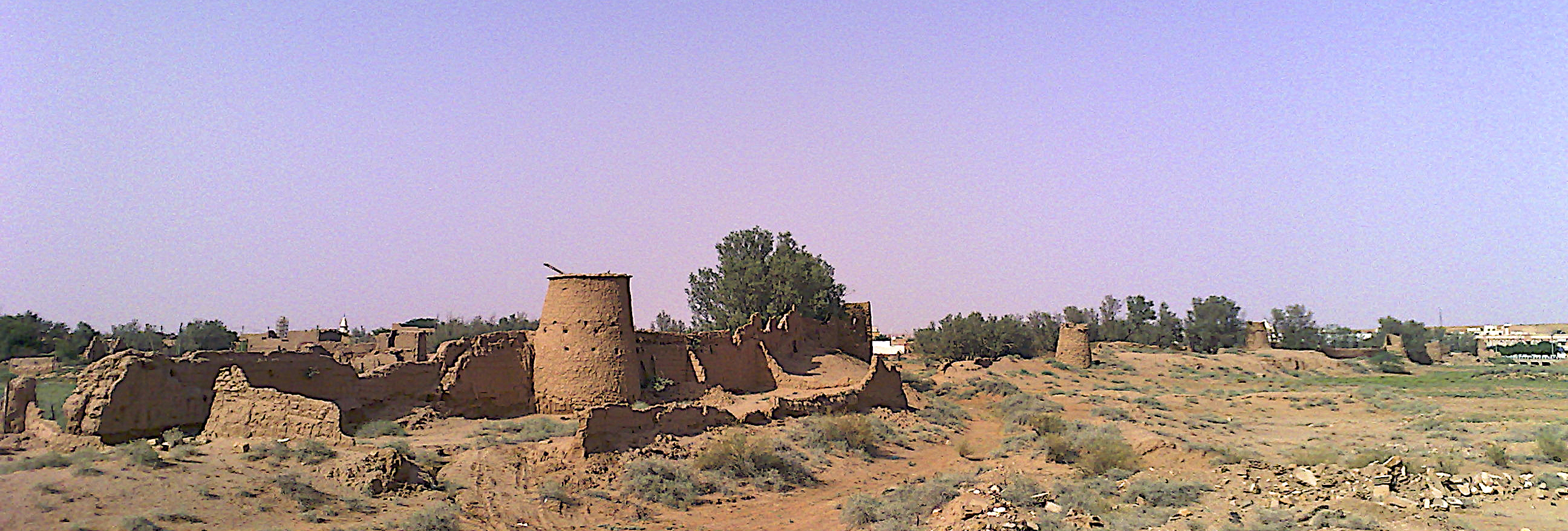 Shaqraa Old Wall used to protect the city during attacks. It was built in early 18th century and was in use till the mid 20th century.